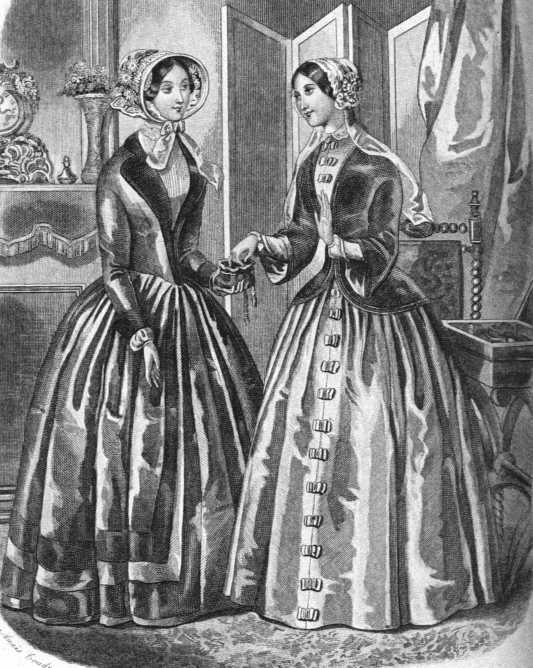 Fashion engraving 1849 from Graham's Magazine